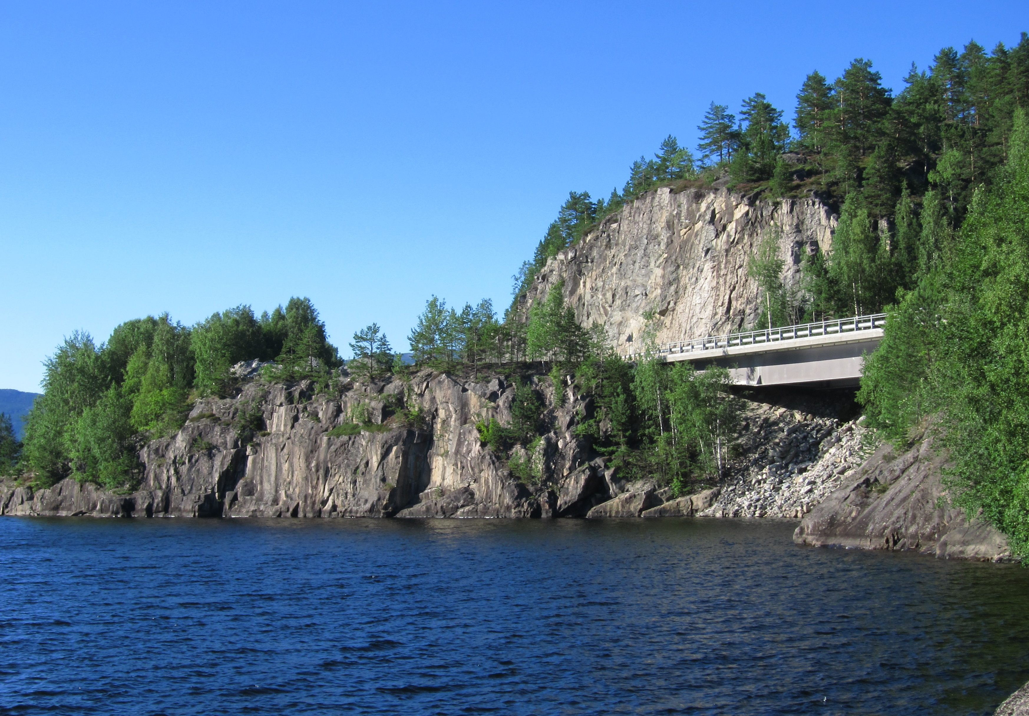 Tolleskytdalen bridge on road 7, at Krøderen lake, Flå municipality